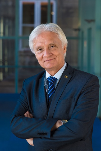 Arkadiusz Jawień